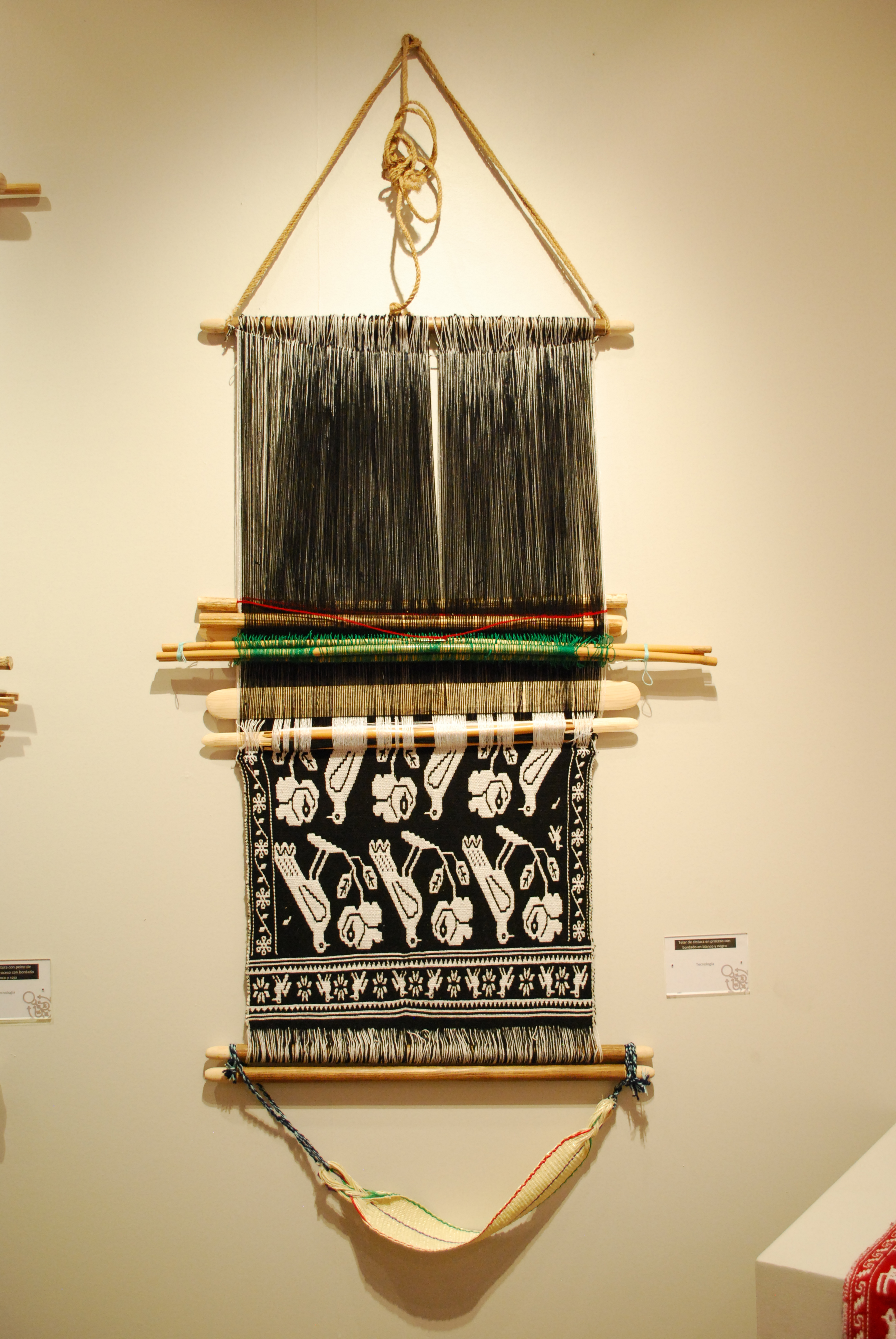 cloth with black and white motif in progress on a backstrap loom. Part of a display of Hidalgo handcrafts at the Museo de Arte Popular, Mexico City